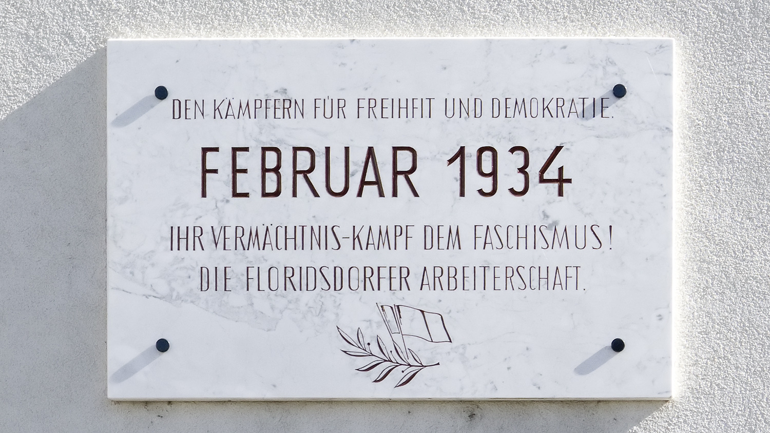 Residential building Schlinger-Hof in Vienna 21